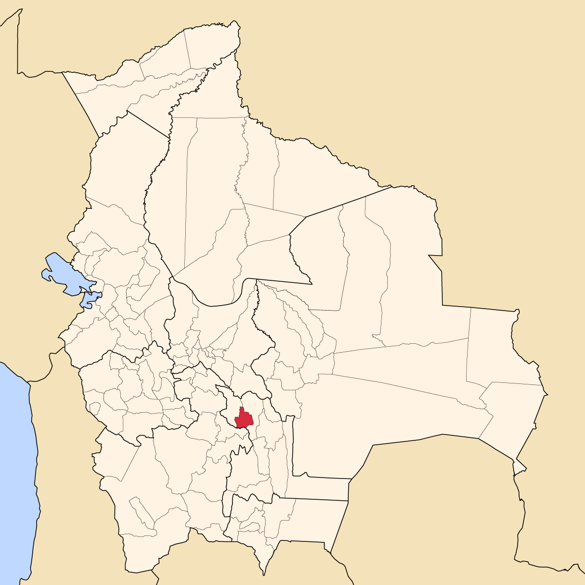 Map of Bolivia showing Yamparáez province, Chuquisaca